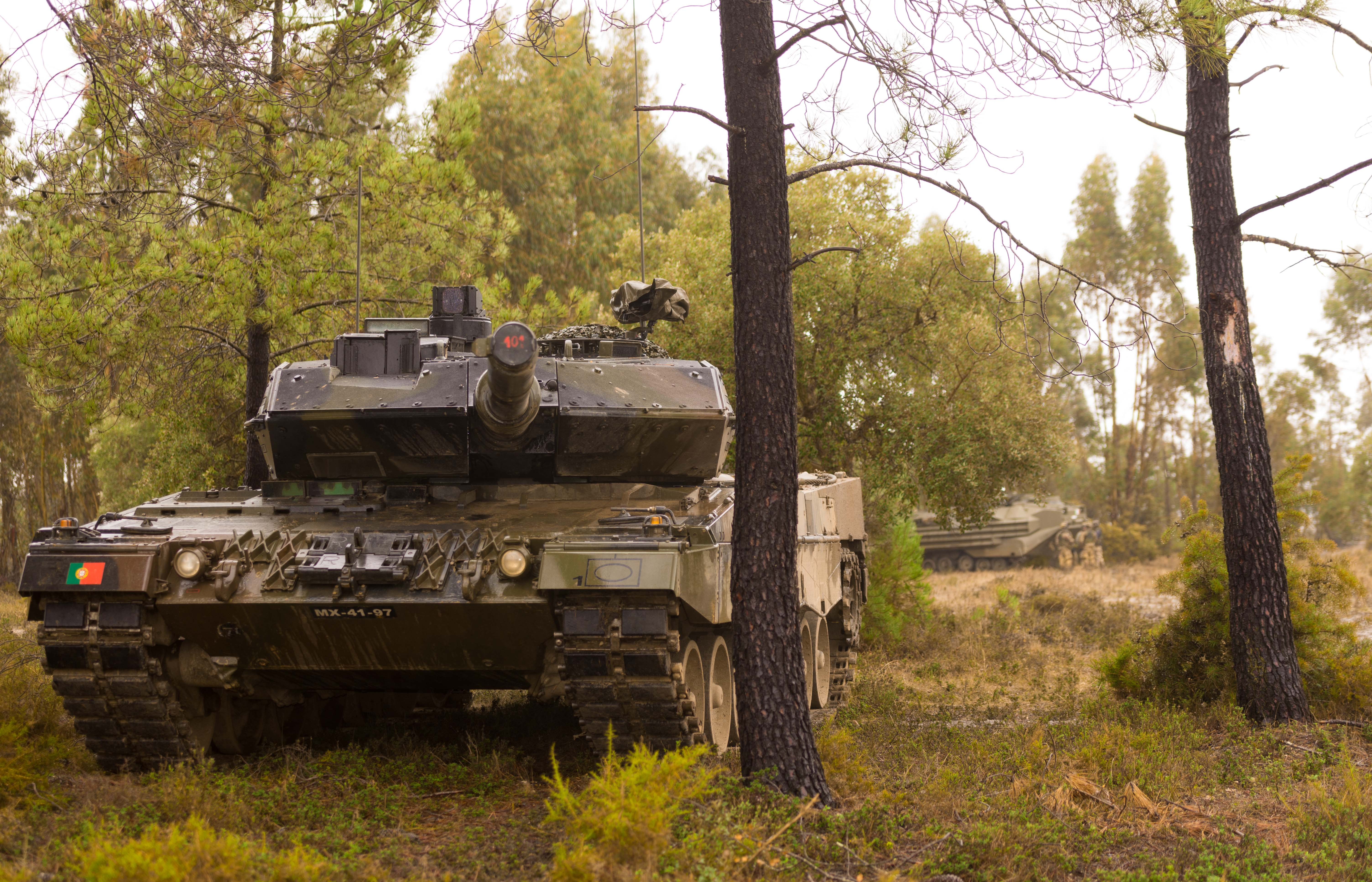 A Portuguese tank provides camp security in Santa Margarida, Portugal, during JOINTEX 15 as part of NATO’s exercise TRIDENT JUNCTURE 15 on November 4, 2015 Photo: Cpl Jordan Legree, Public Affairs, 5CMBG VL06-2015-535-004